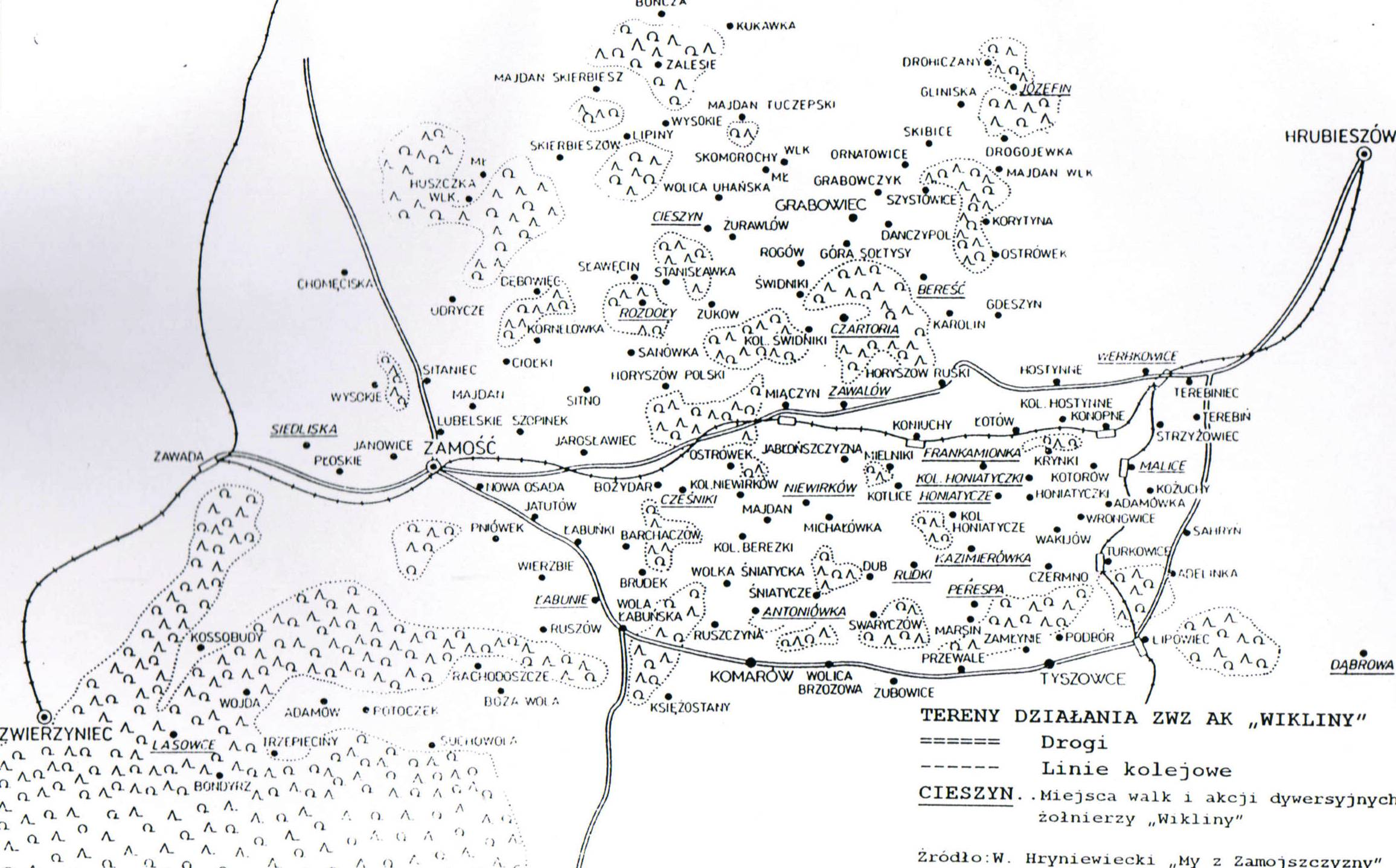 Obszar działania oddziału AK "Wiklina"